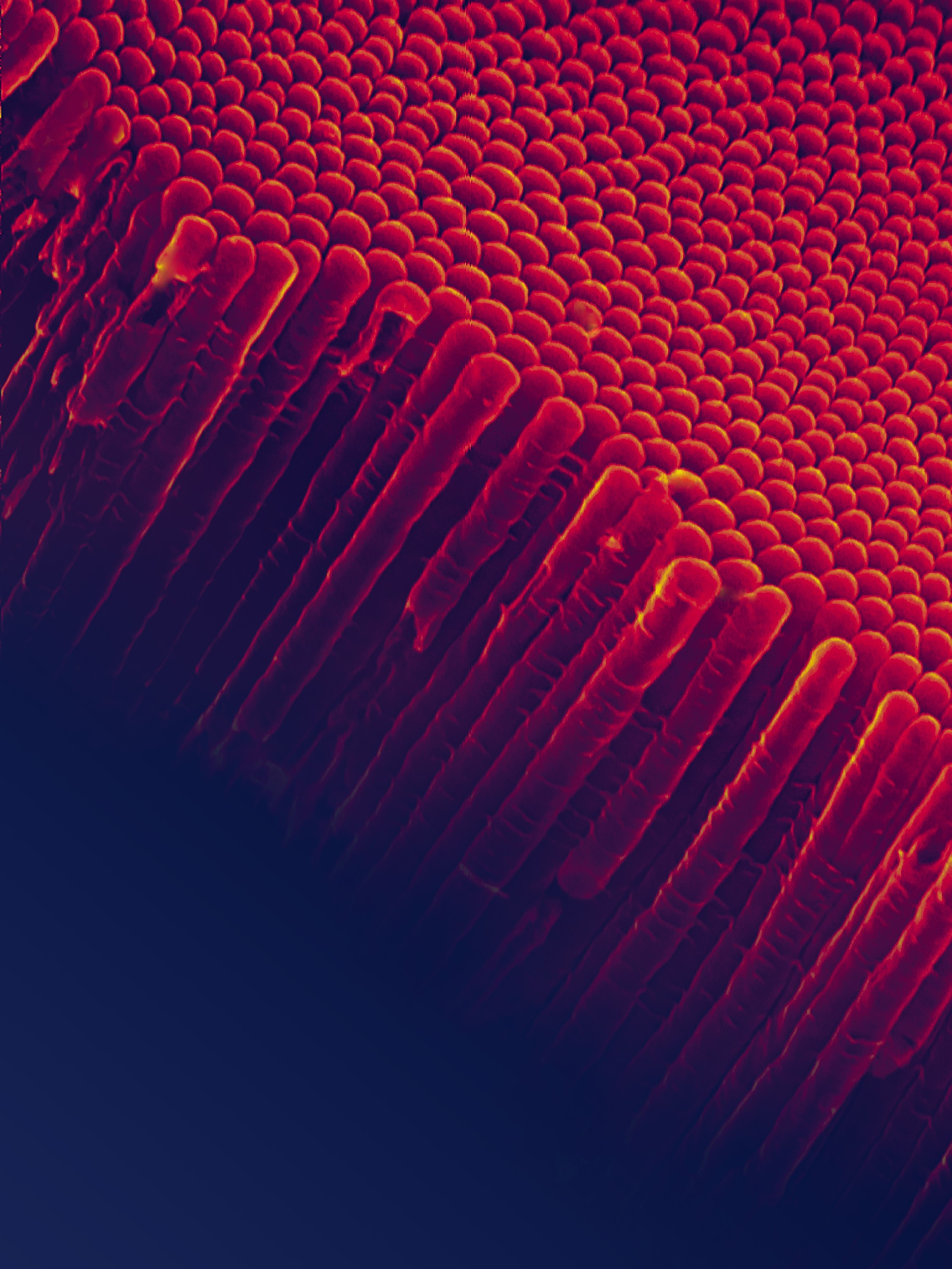 The processed electron image of titanium dioxide nanotubes obtained by anodization of titanium metal. The diameter of tube is 70 nm, the length is 1000 nm. Nanotubular titania is a prospective media for many applications such as solar batteries, memristors, photocatalysis, capacitors, gas sensors, hydrogen generators, etc.